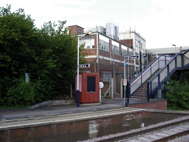 Overton station and De La Rue paper mill. There is a workers only access to the paper mill from the "up" platform.